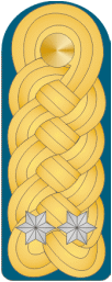 Division General Serbian Army 1914-1918